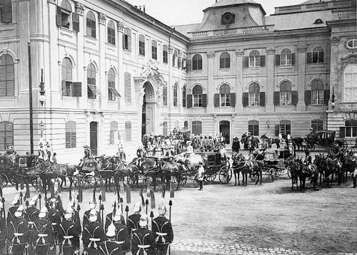 Royal procession at the western courtyard of Buda Castle.